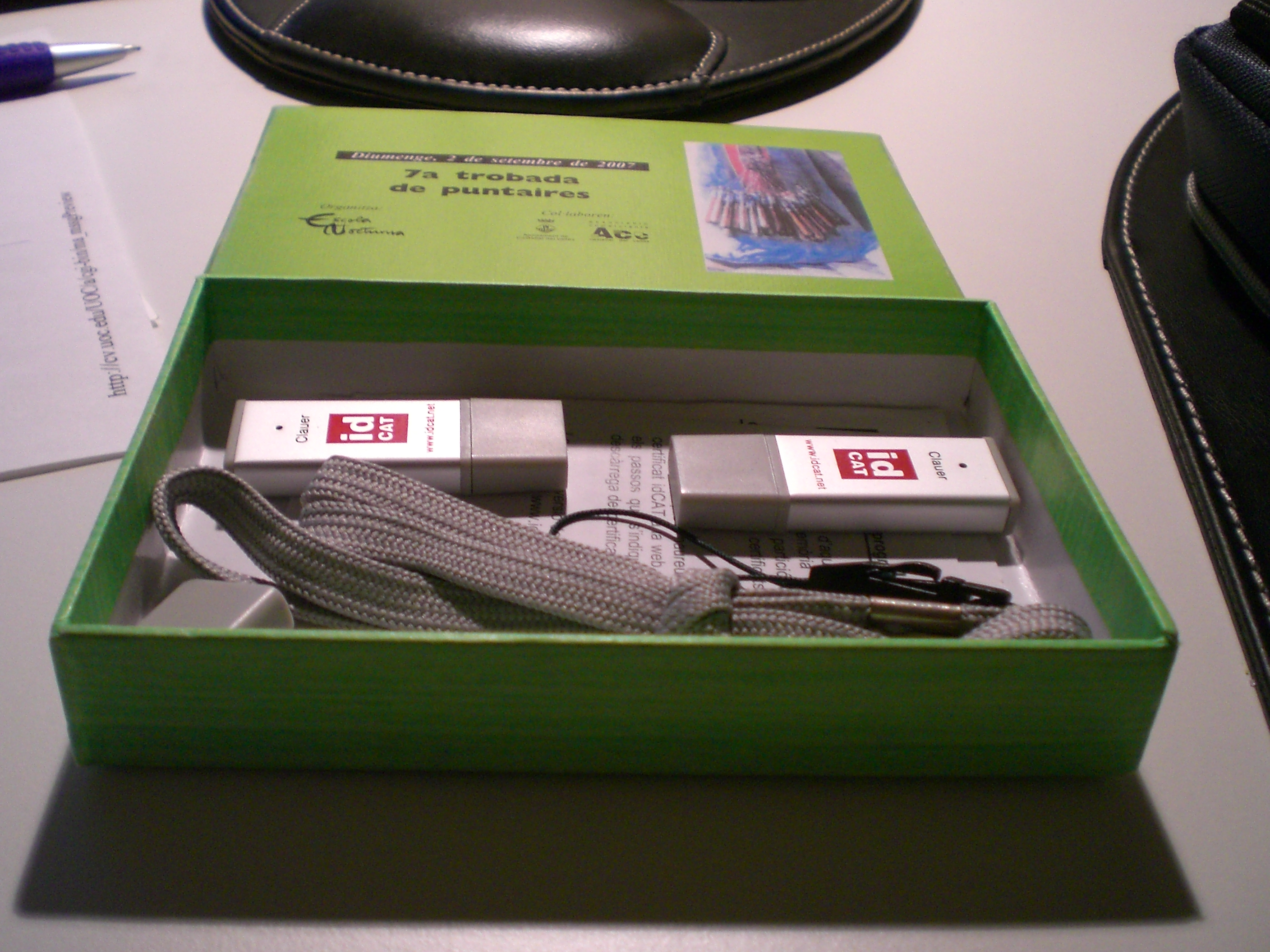 The USB which is done by the Generalitat de Catalunya in order to validate your electronic signature